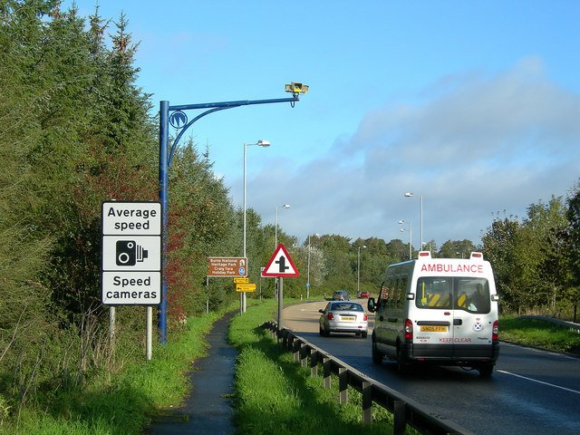 A77 Trunk Road to the south of Ayr The average speed cameras were introduced in 2005 to promote safety on this busy, accident-prone road.